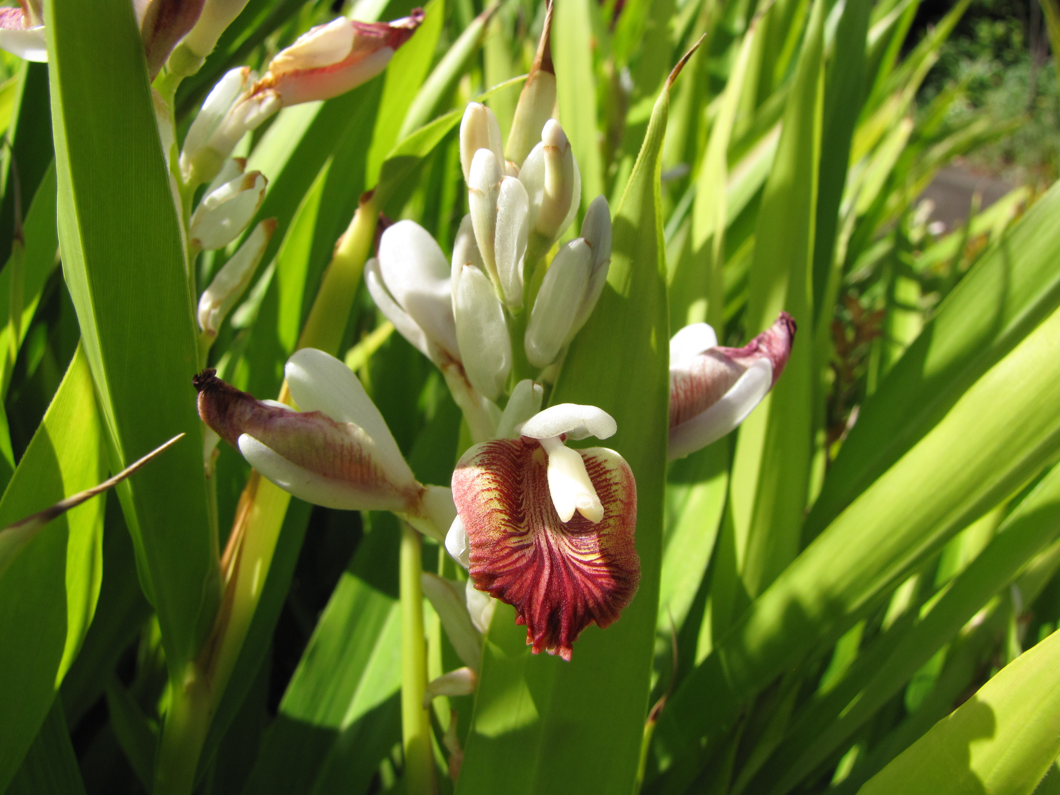 Alpinia calcarata, Enchanting Floral Gardens of Kula. Attribution: Forest & Kim Starr